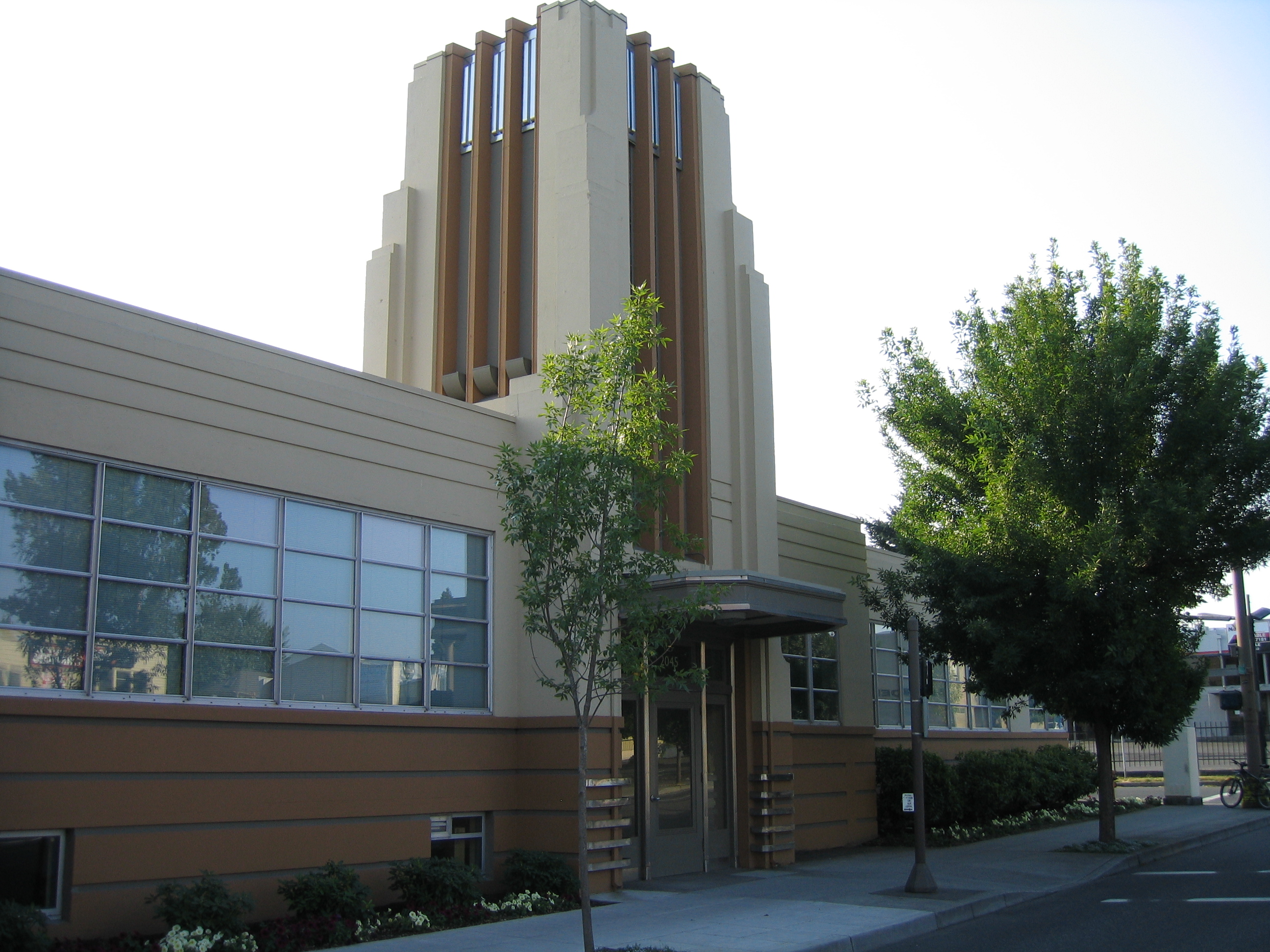 The Williams & Company building was designed and built in 1936 by local architect Francis Marion Stokes. The building is listed on the City of Portland Historic Resource Inventory